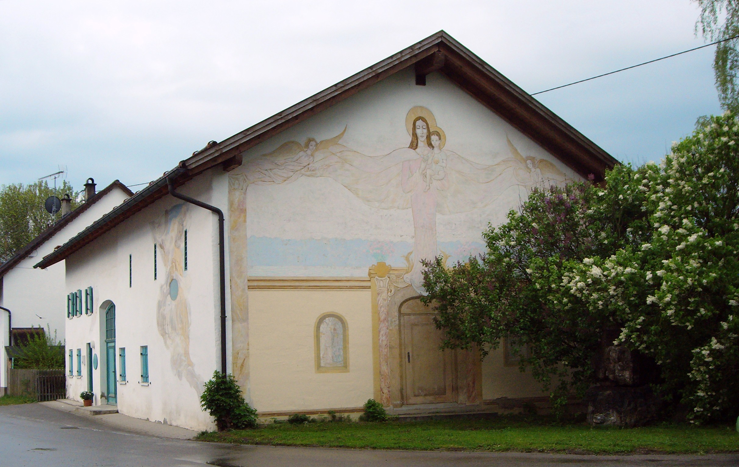 description follows